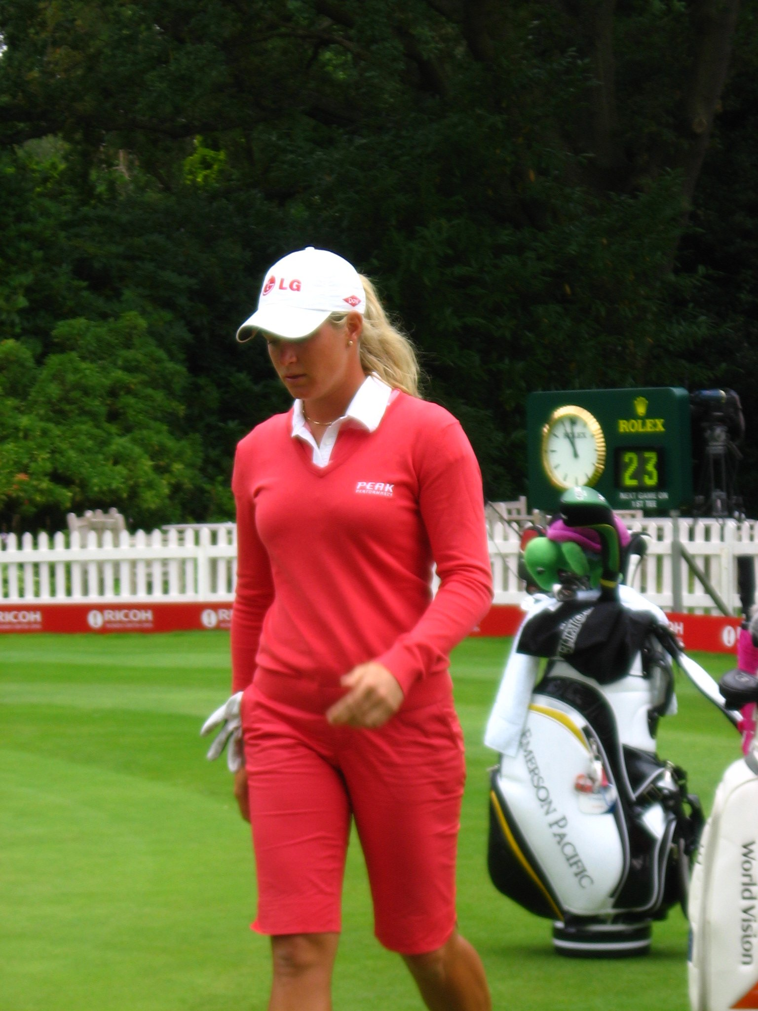 Suzann Pettersen on the practice green preparing for her final round in the 2008 Ricoh Women's British Open at the Sunningdale GC